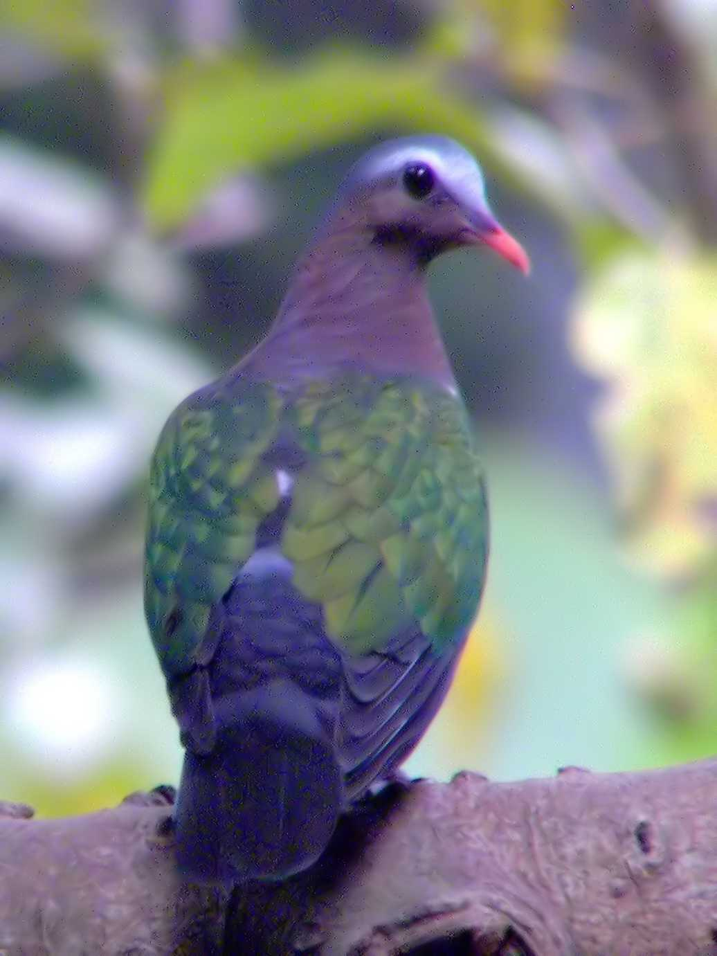 Chalcophaps indica Saw at hillside. Got a video as well.